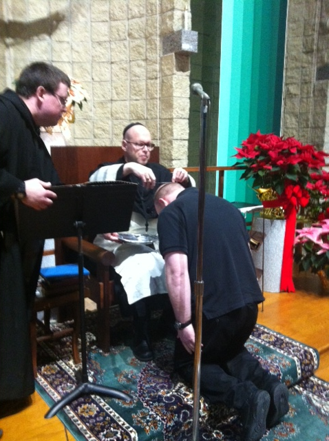 The novice receives tonsure as part of being invested.